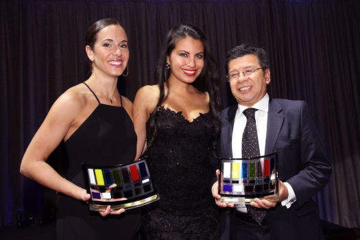 Premio 2013